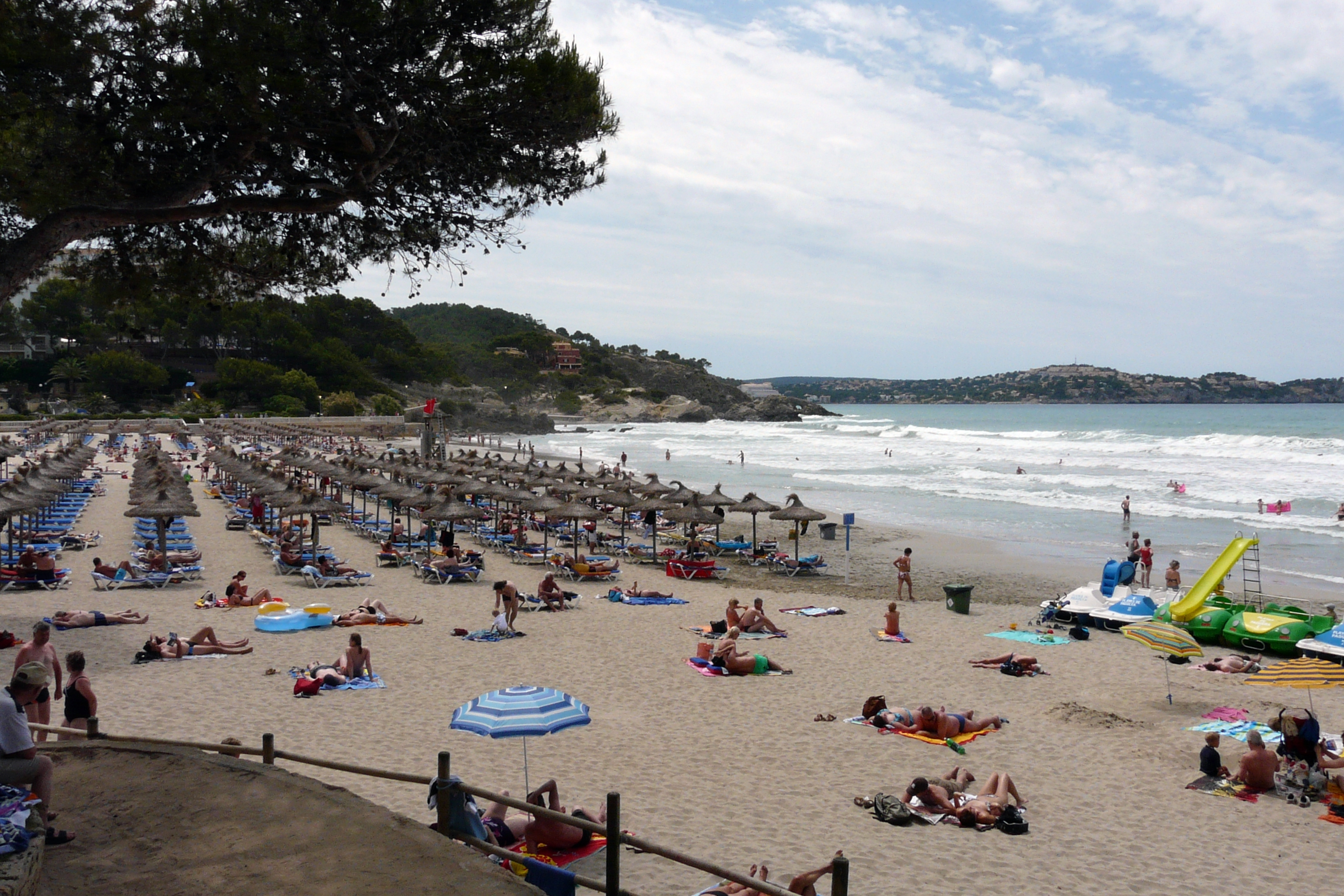 Platja de Tora in Paguera, Mallorca